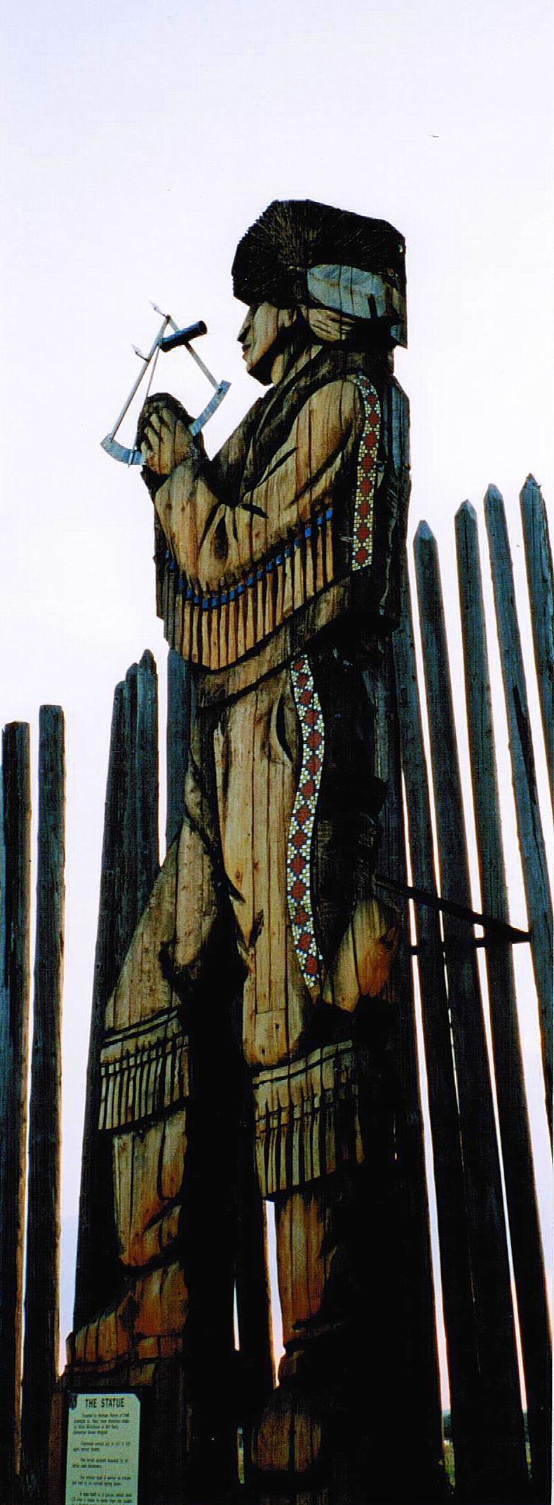 Located at the north end of Elk Point, Alberta on Highway 41 is the Carved Statue of Hudson’s Bay Surveyor Peter Fidler 32 feet high by 8 feet wide Carved with Chain Saw by Herman Poulin for Elk Point’s 1992 Bicentennial Project of the Fort.